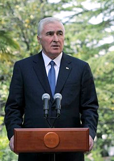 South Ossetian President Leonid Tebilov